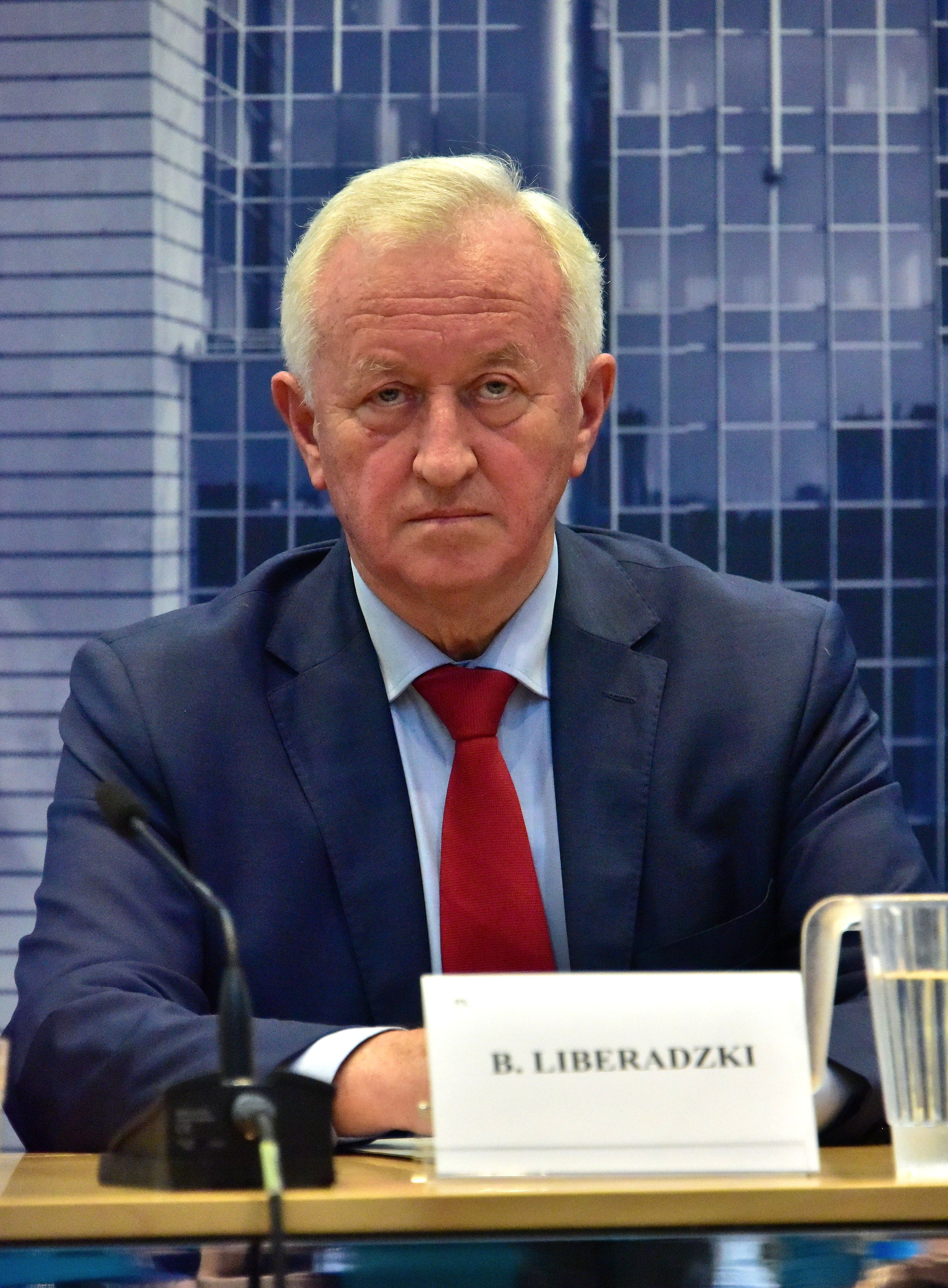 Deputy Speaker of the European Parliament Bogusław Liberadzki during an ECPRD seminar The future of parliamentary research services and libraries in an era of rapid change: How best to support elected members in their multiple roles in the Reading Room of the European Parliament Library in Brussels (Altiero Spinelli building)